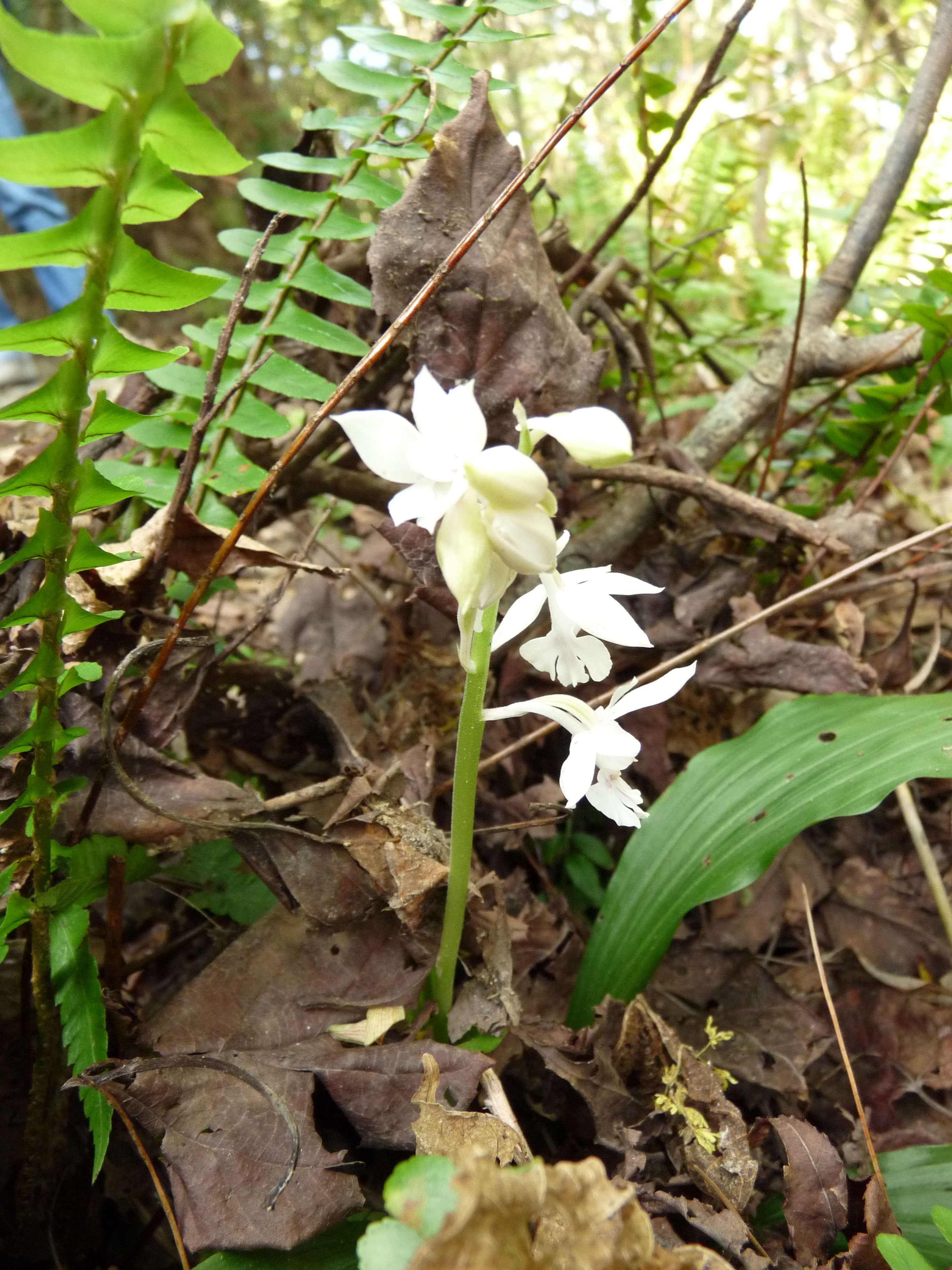 Calanthe aristulifera var. amamiana